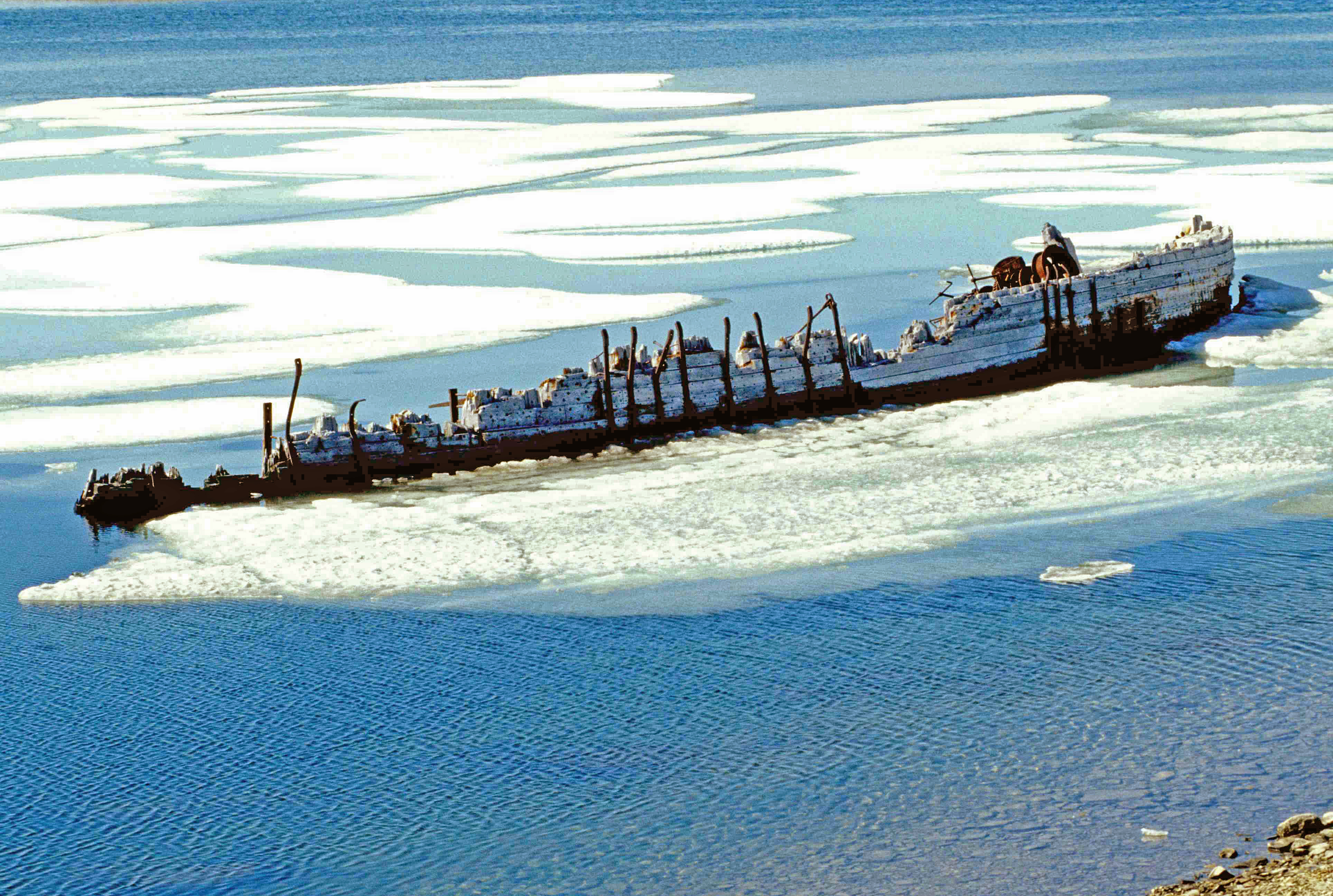 Amundsen's Maud (shipwreck from 1930) near Cambridge Bay (Nunavut)